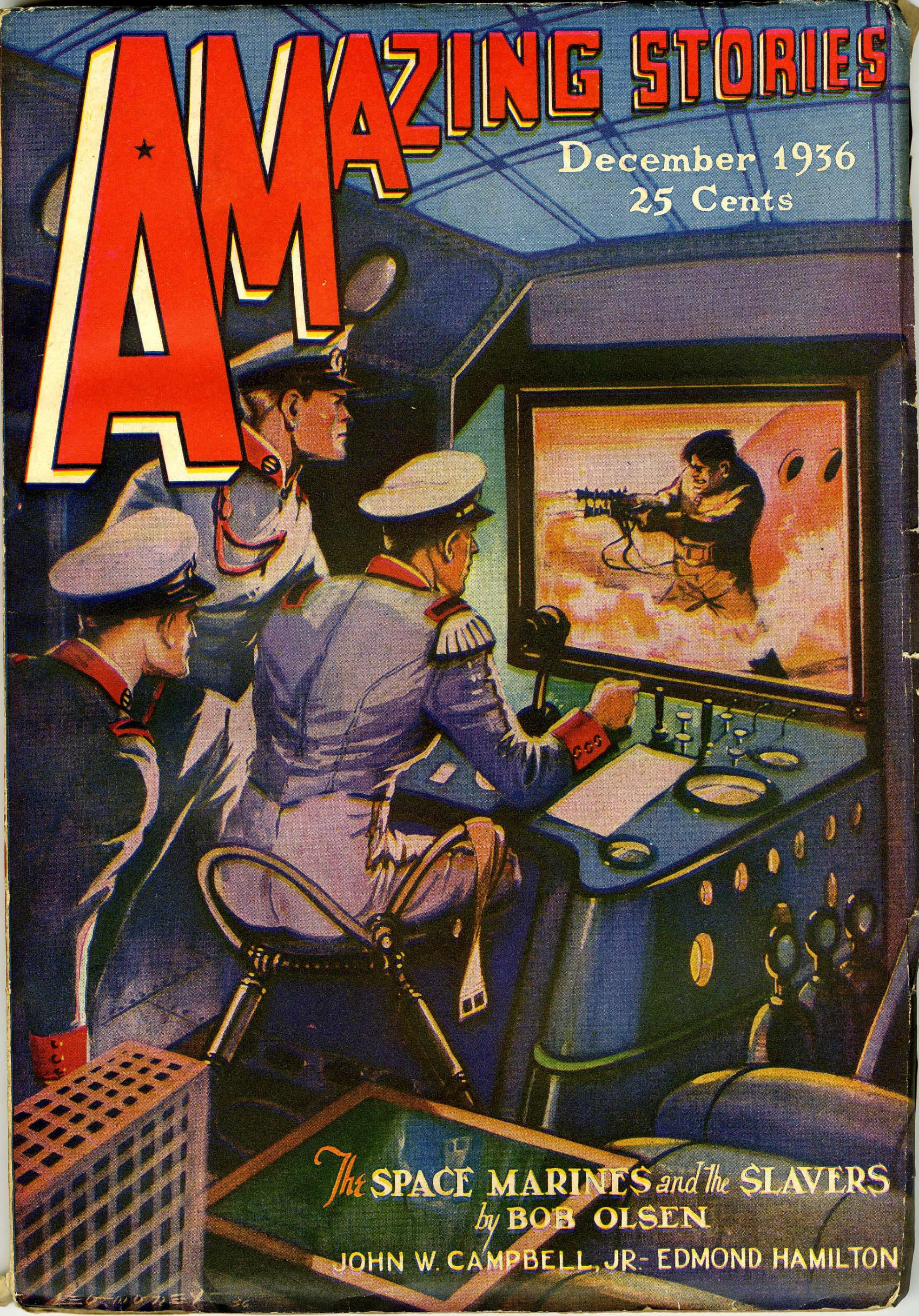 Cover of the pulp magazine Amazing Stories (December 1936). Is possibly the first illustration of a space marine.